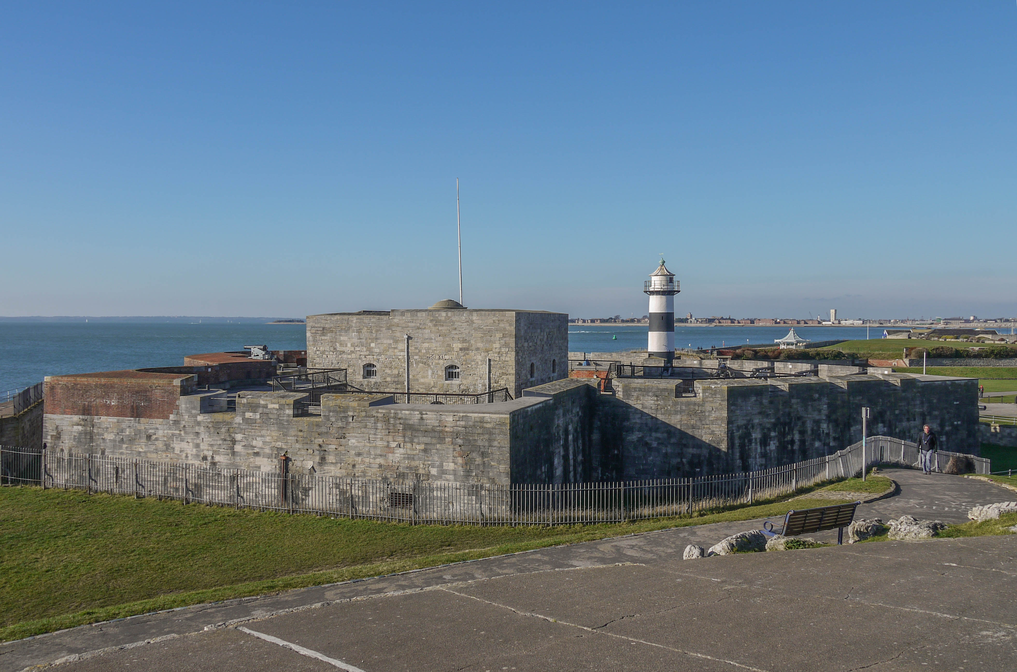 Photo of southsea castle taken while standing on the eastern of the wing bastions